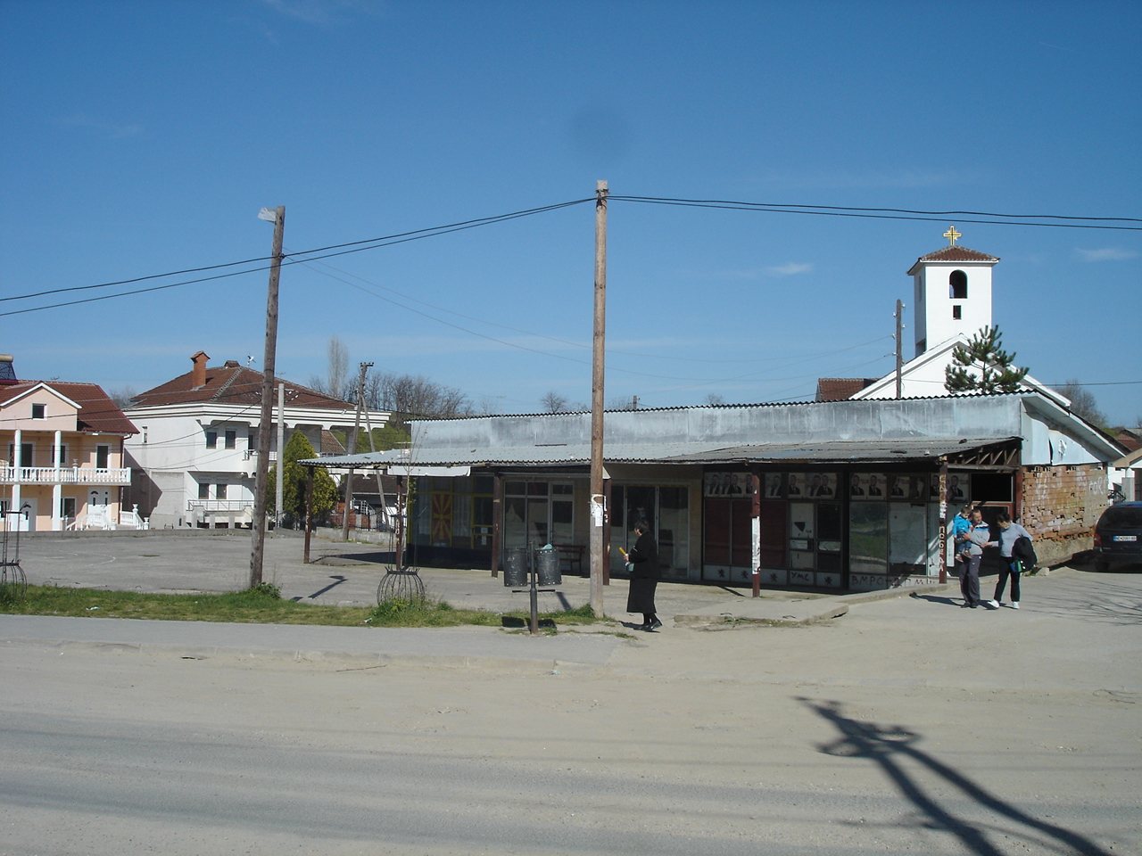 Center of the village of Timjanik, Macedonia